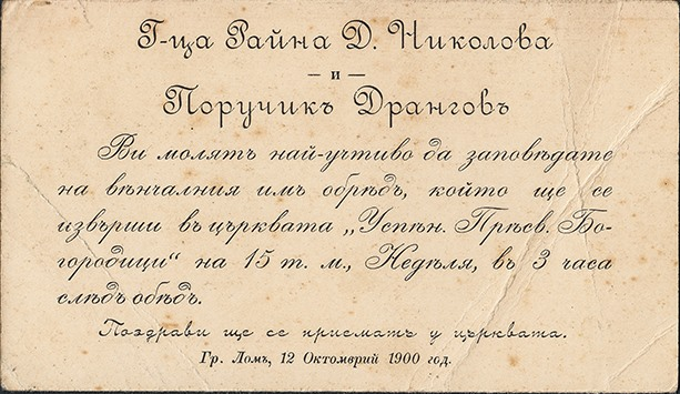 Wedding Invitation of Rayna and Boris Drangov